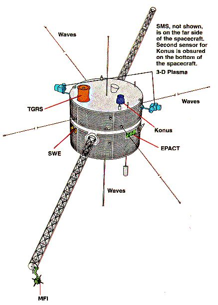 Diagram of WIND spacecraft.